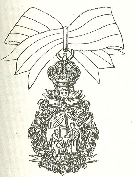 Jewel of the Order of Saint Isabella. Portugal